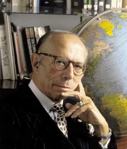 Roberto de Oliveira Campos, brazilian diplomat, economist and politician.